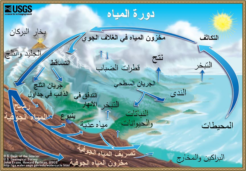 Water-Cycle Diagram (Arabic)